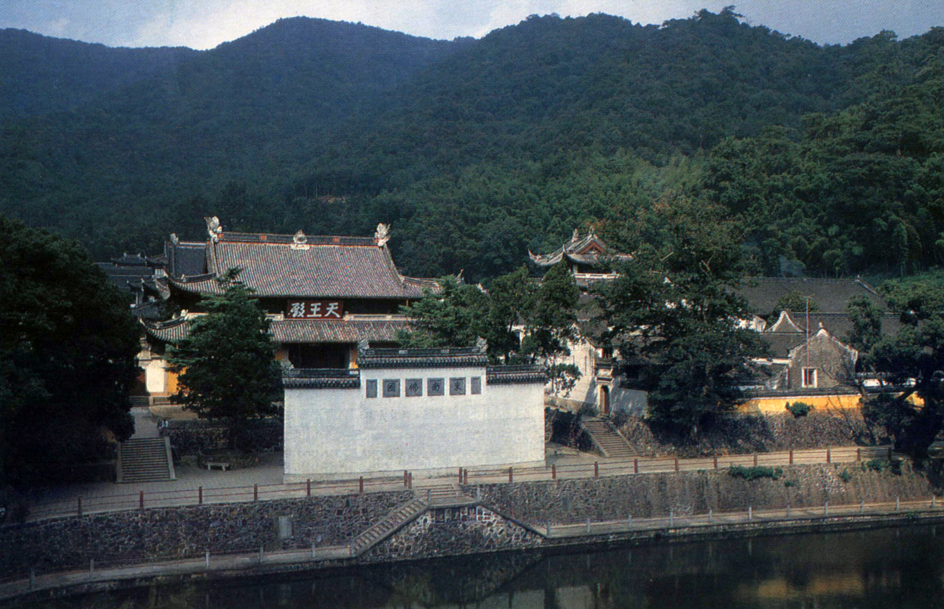 Tiantong Temple in Ningbo, Zhejiang Province, People's Republic of China